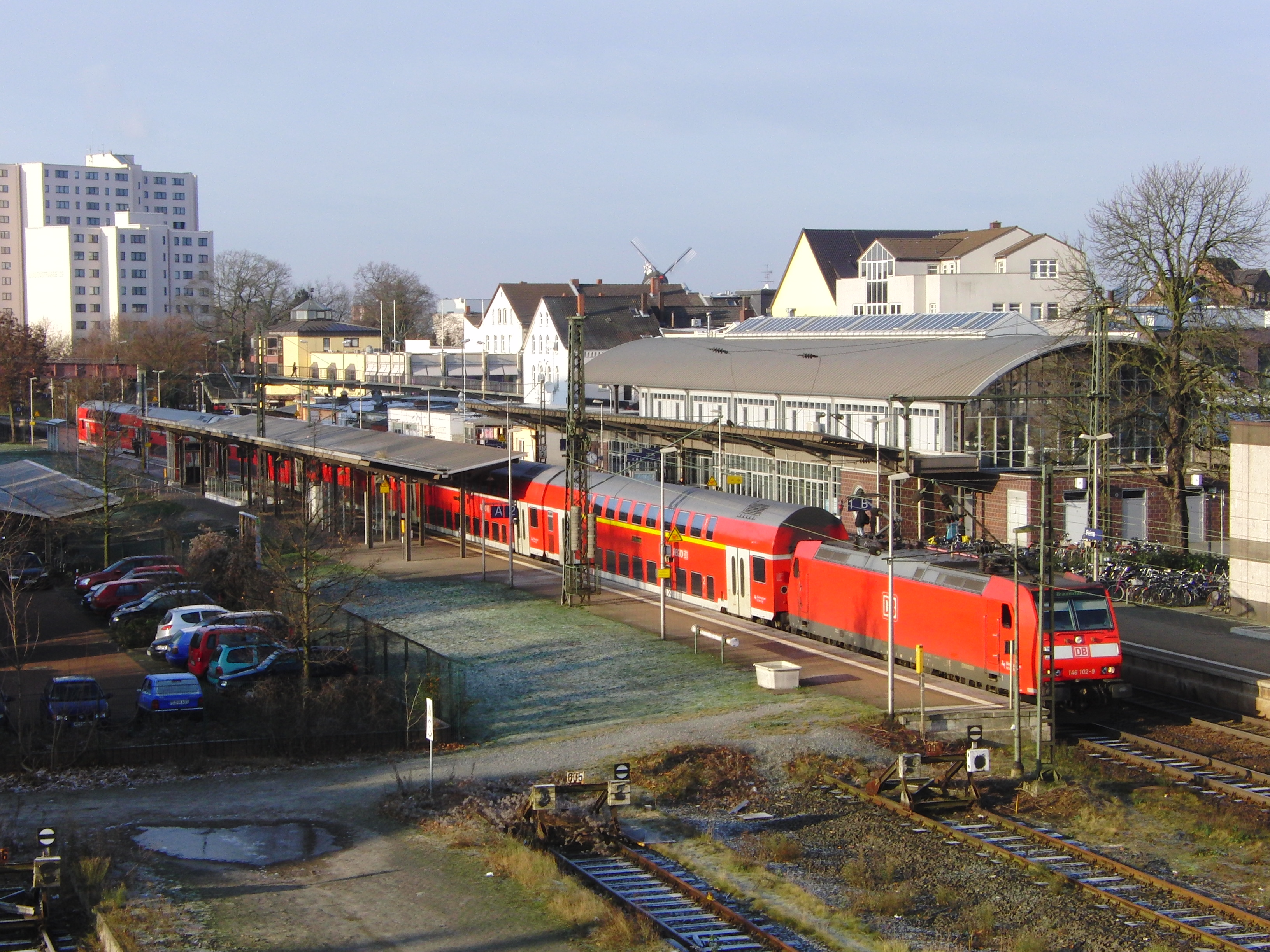 Train station Peine from Southeast